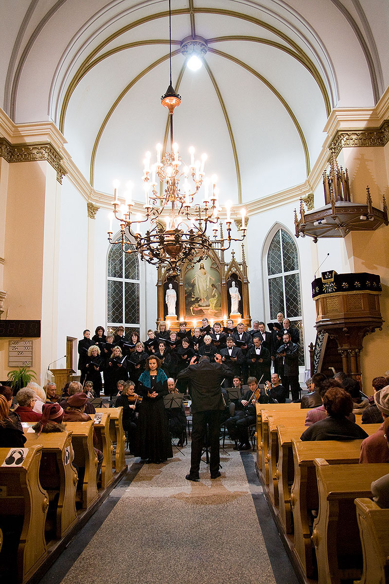 Svatováclavský hudební festival in the Třinecs evangelic church (EU - Czech Republic - Třinec). Interprets: Čeští komorní sólisté, Moravský komorní sbor led by the Jiří Šimáček. Soloist Hana Škvarková and two soloists clarinets Emil Drápela and Lukáš Daňhel.